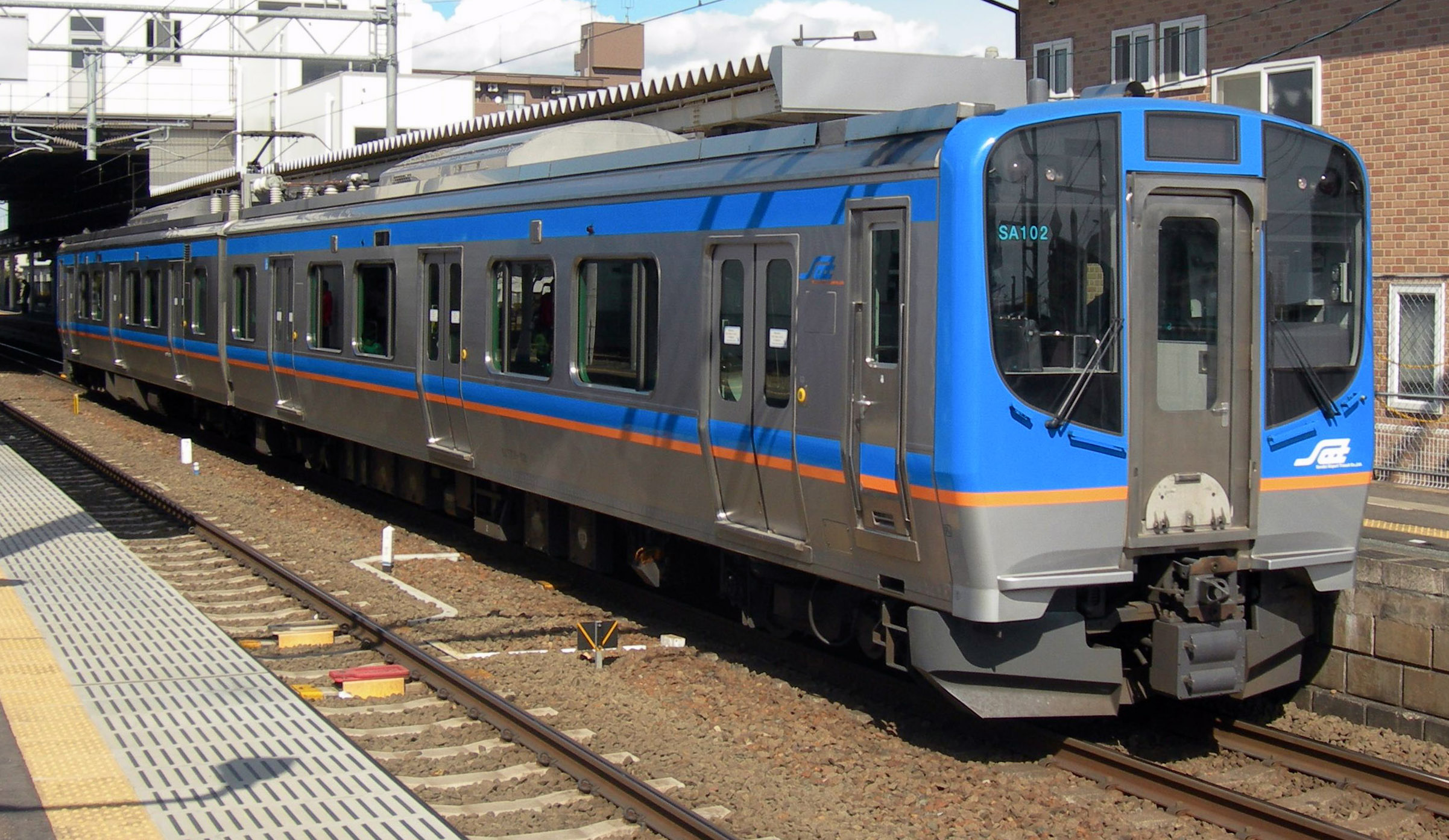 SAT721 series EMU set SA102 at Natori Station